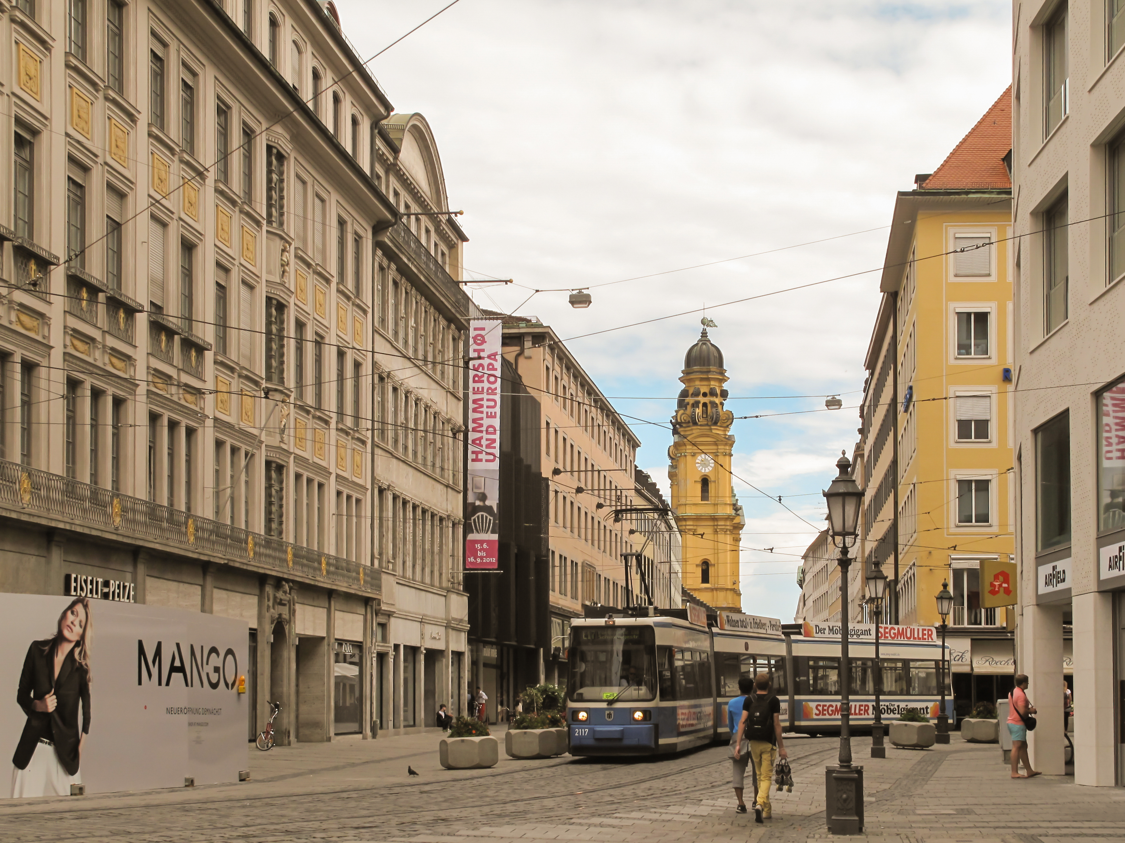 München, church (die Theatinerkirche) in the street